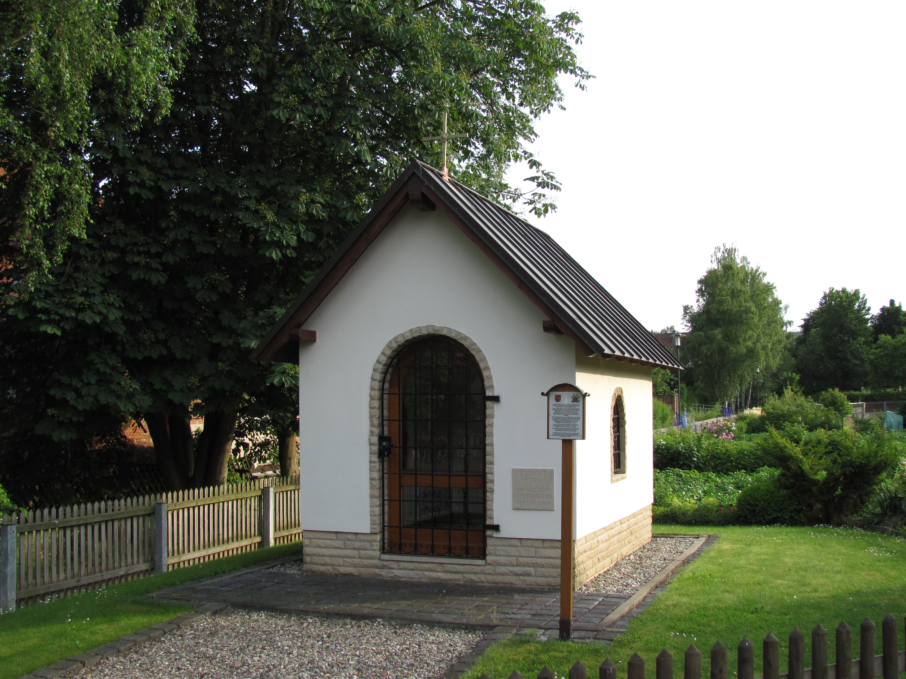 Chapel, Diekholzen, Germany.